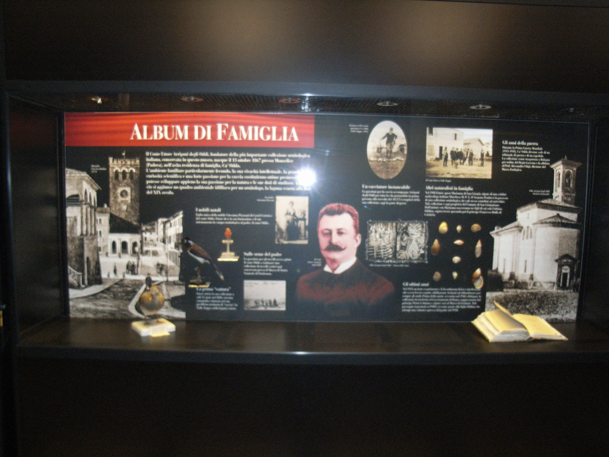 Oddi Ornithologist Case in Rome Natural History Museum